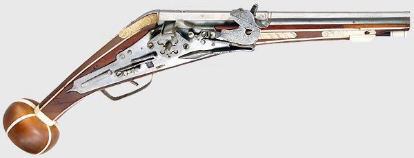 A Wheellock Puffer, Augsburg around 1580. Octagonal then round smooth bore barrel in 12 mm caliber. The Augsburg pyr and orb mark between "AZ" are deeply stamped at the breech. The iron wheel lock with safety has light floral engraving. The flat lock plate has a diamond shaped mark under "HK". Walnut full stock is inlaid with stripes and plates of engraved bone. Pommel, trigger guard, ramrod, and a few inlays are replacements, and the wooden stock has some small restorations. Length 49 cm. For the barrel mark "AZ", see: Stoeckel II, page 1369, No. 1985 and E. Schalkhauser, Handfeuerwaffen des bayerischen Nationalmuseums München (Small Arms of the Bavarian National Museum, Munich) No. 86 & 87.